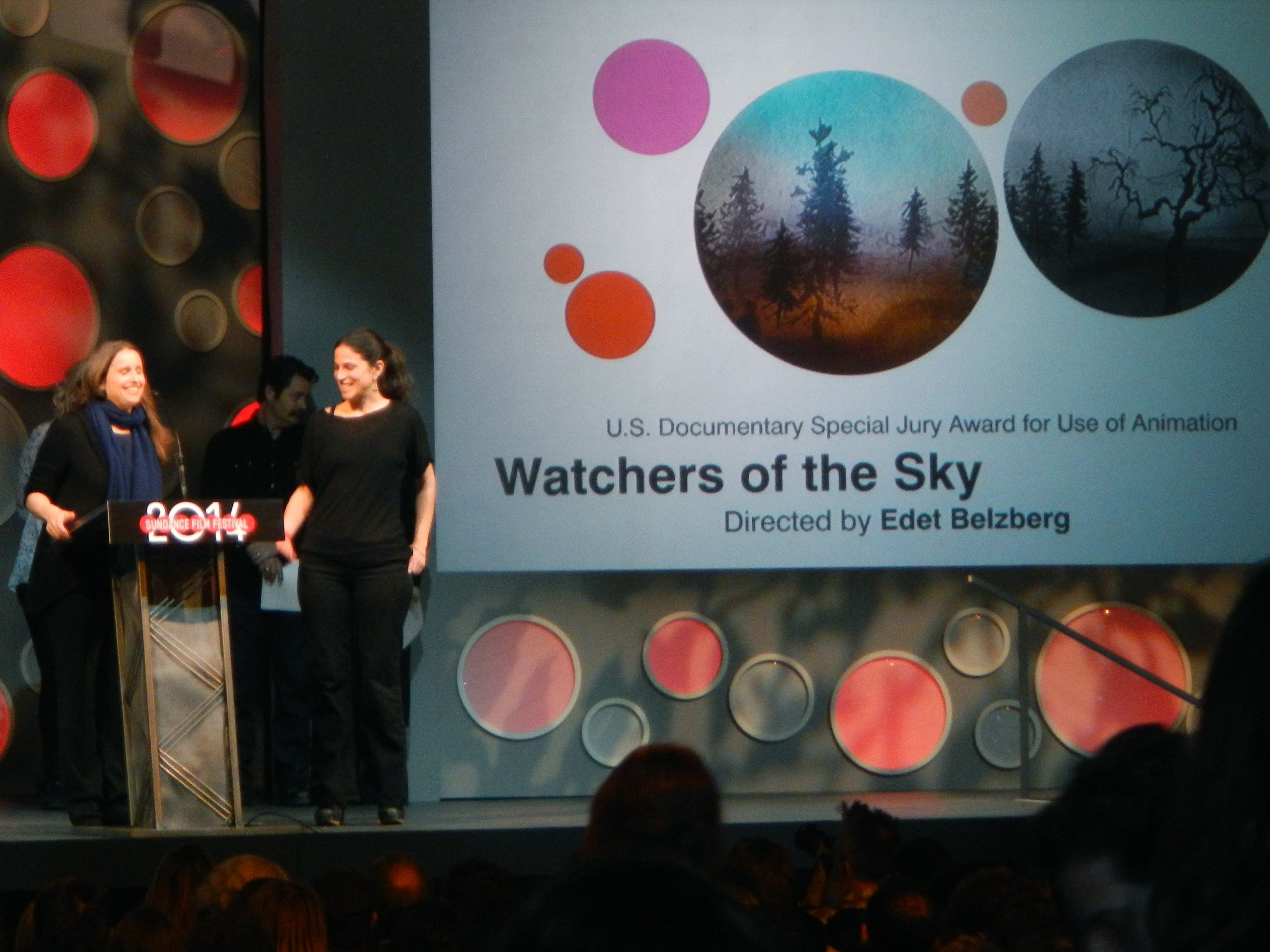 Sundance 2014 Awards Ceremony